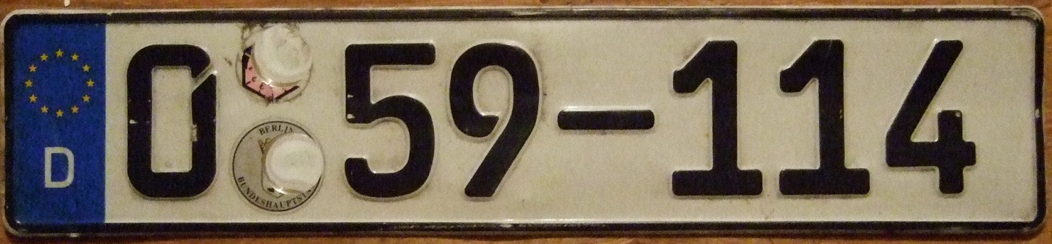 German diplomatic license plate from Iran. The number "59" denotes this "0" prefixed plate as being issued to the Iranian Embassy in Berlin.